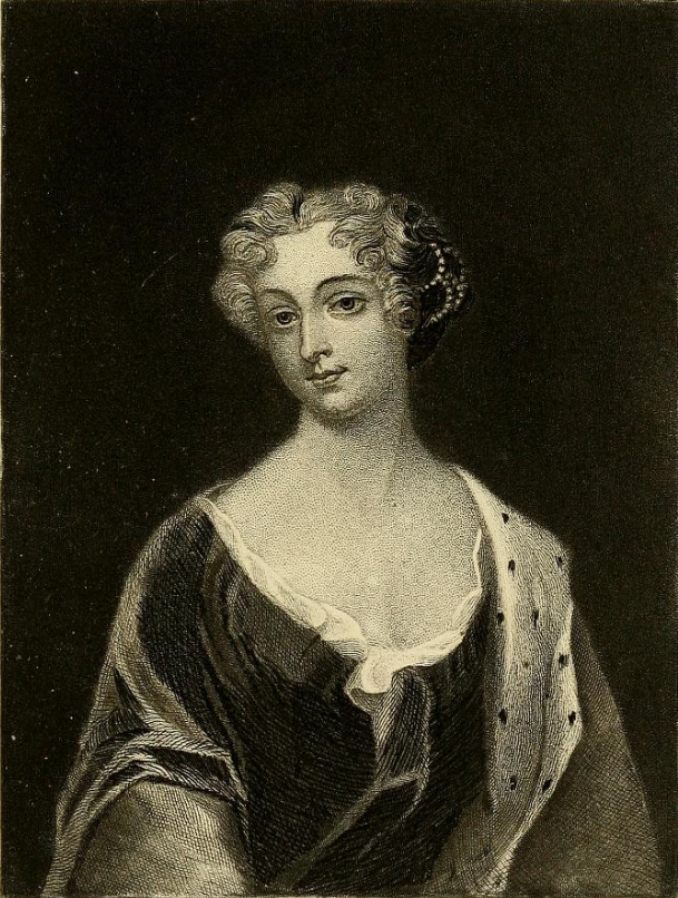 Engraving of a painting representing Miss Frances Jennings later Duchess of Tyrconnell